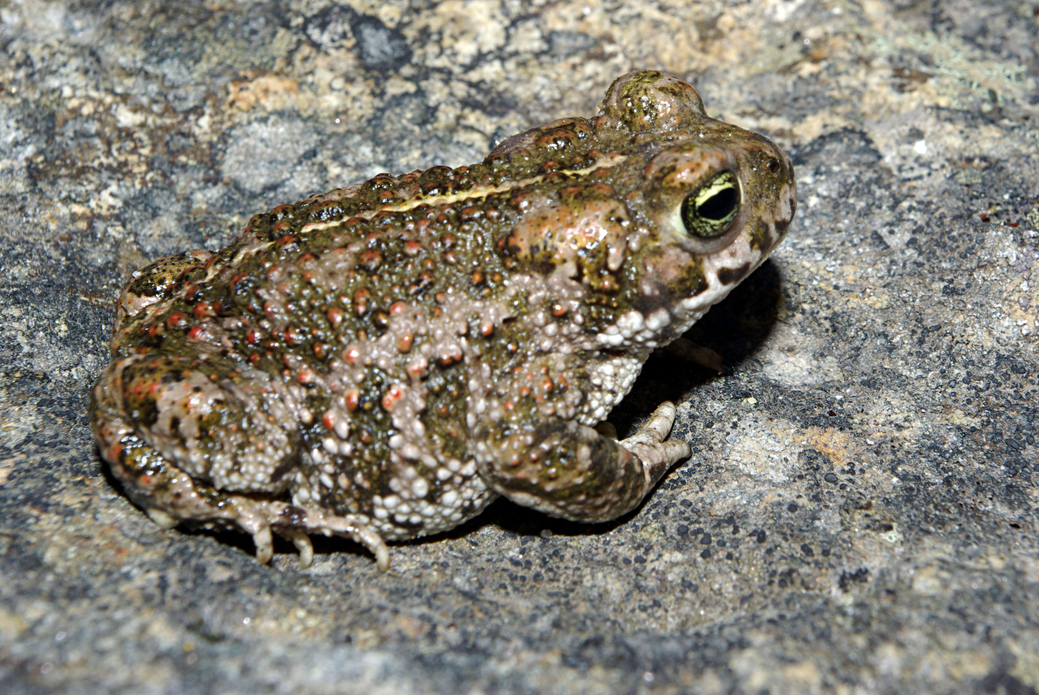 Natterjack Toad Epidalea calamita near Badilla, Zamora (Spain)